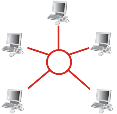 Star type of network